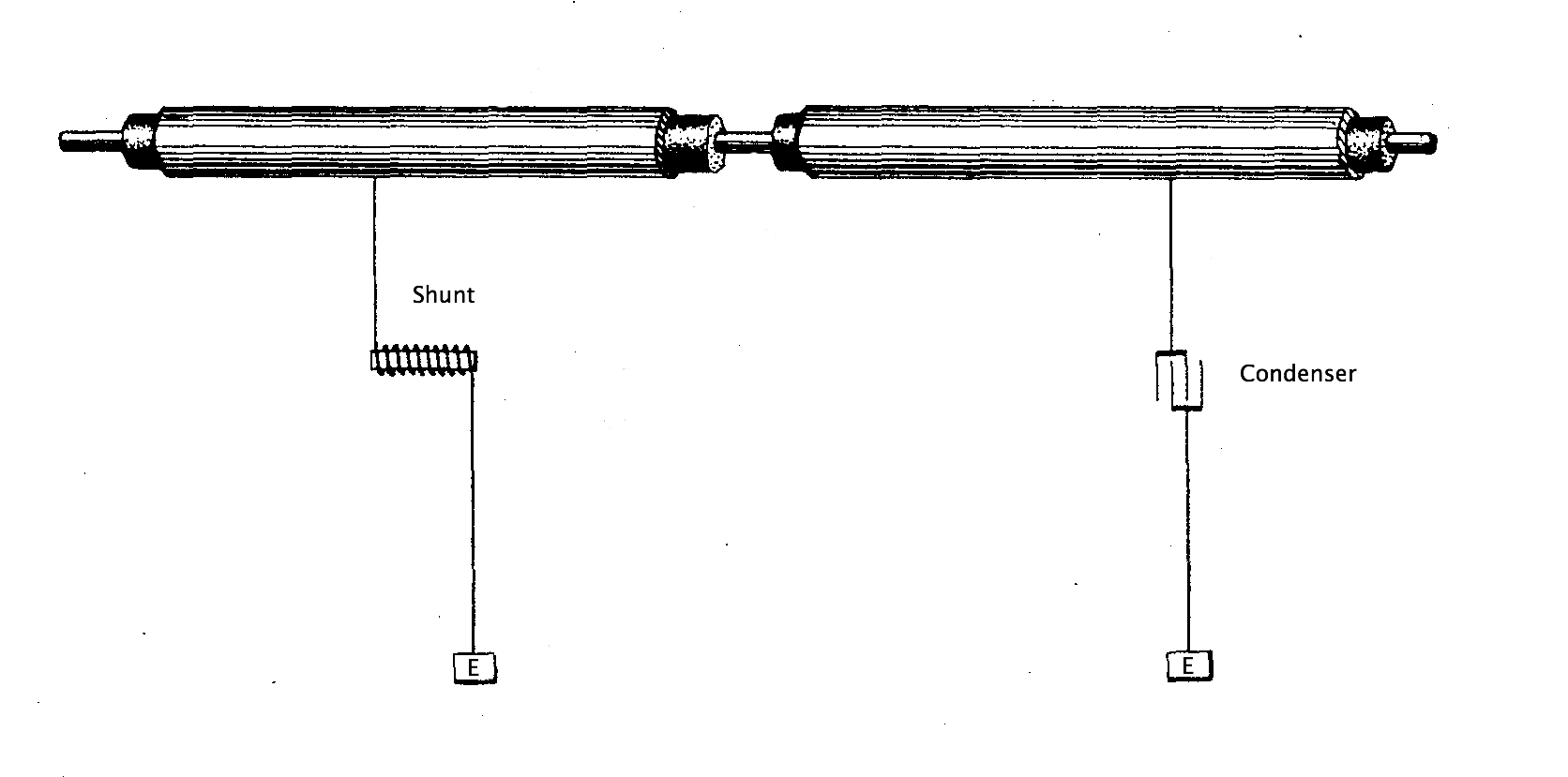 Insulated electrical conductor, patent n° 514,167.